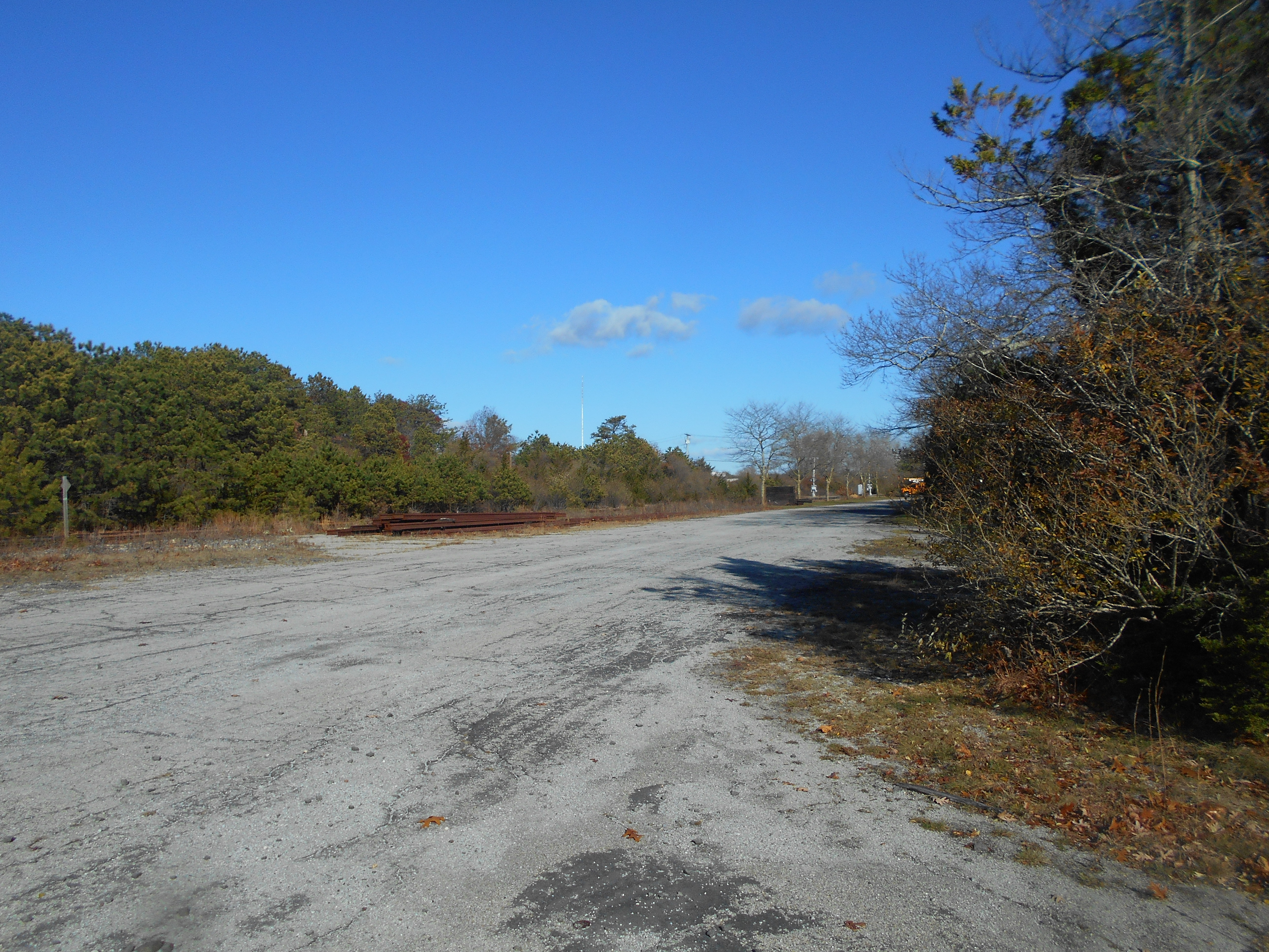 The site of the former platform at the Quogue station for the Long Island Rail Road in Quogue, New York.